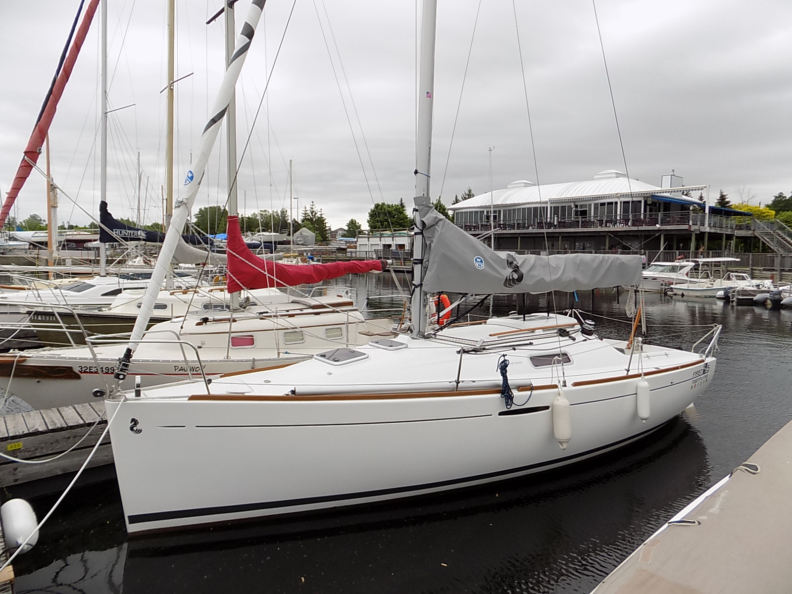 A Beneteau First 25S sailboat named Gracie.